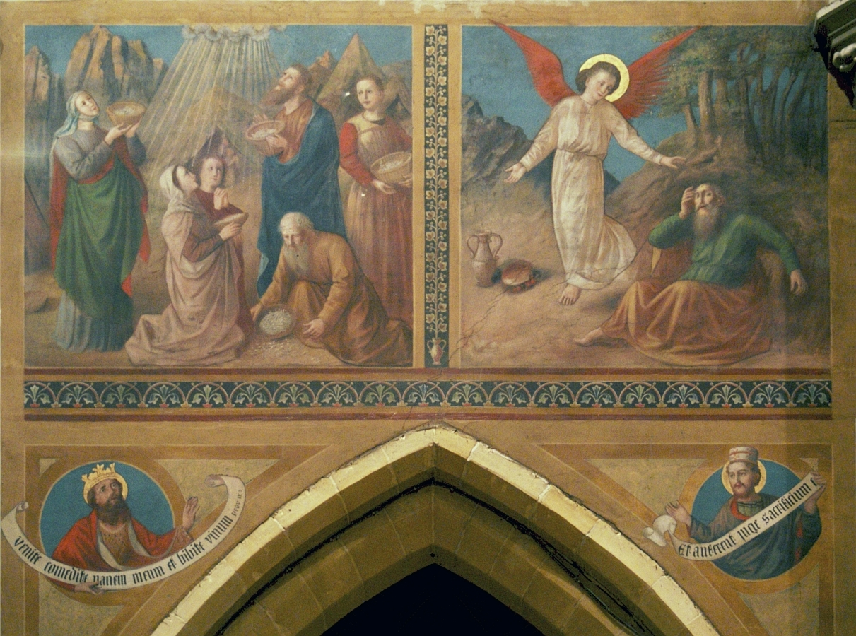 Old wall painting in the church of Sint-Pietersbanden in Lommel